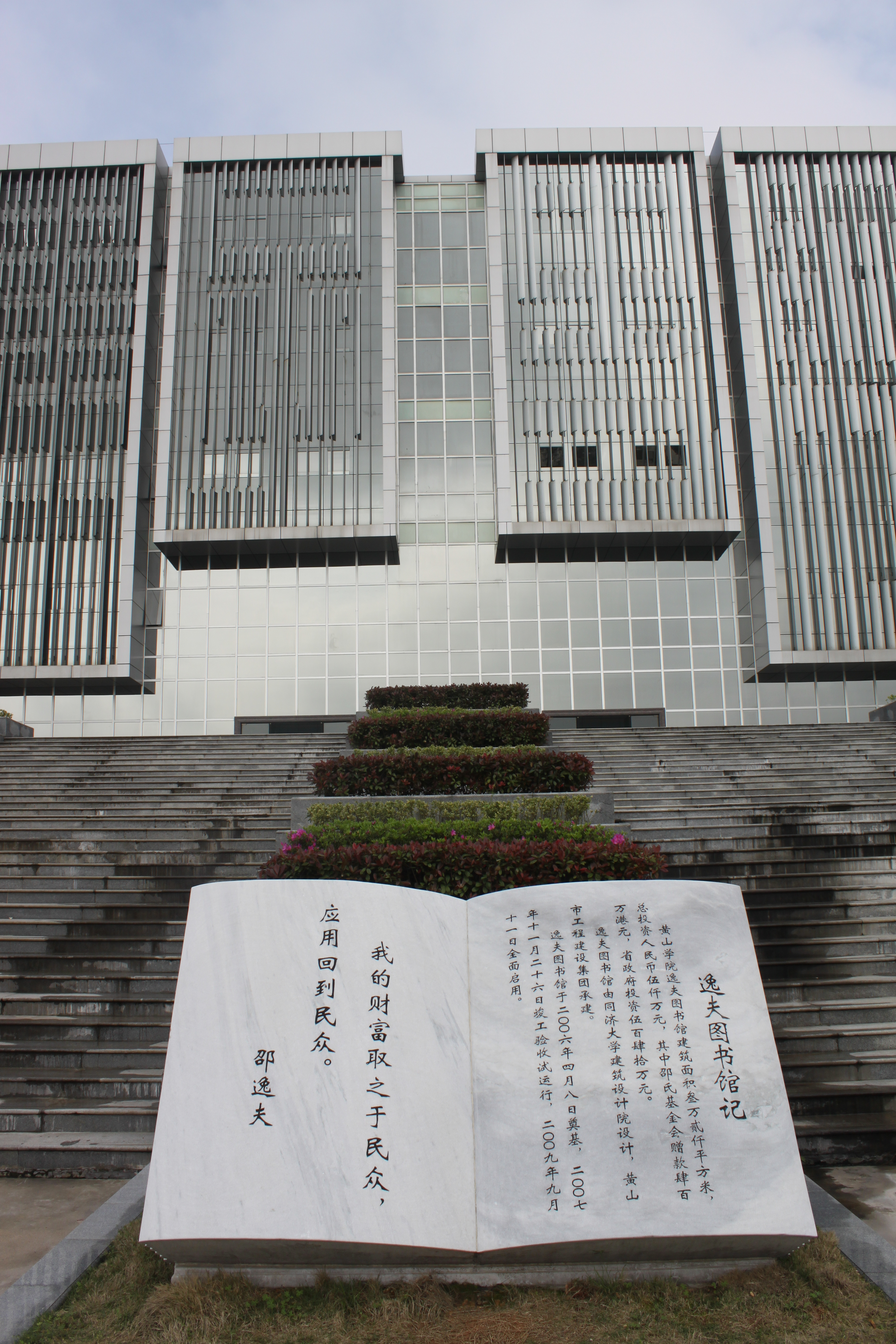 The Run Run Shaw Library at Huangshan University.jpg